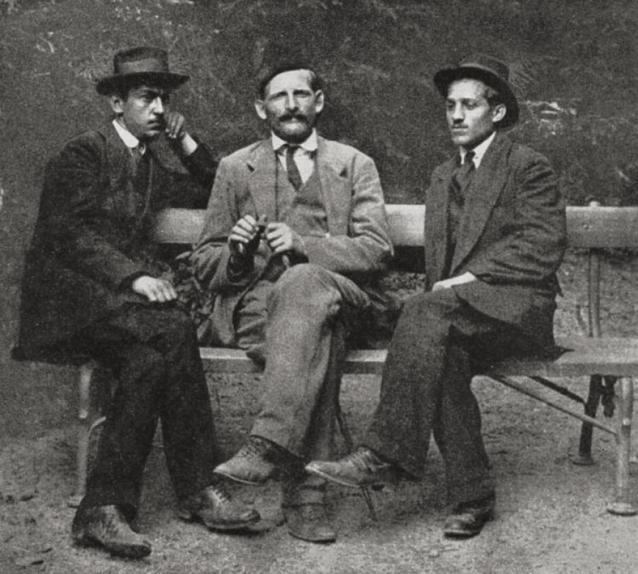 Trifko Grabez (left),Milan Ciganović (centre), and Gavrilo Princip (right), in Kalemegdan park in Belgrade, in May 1914